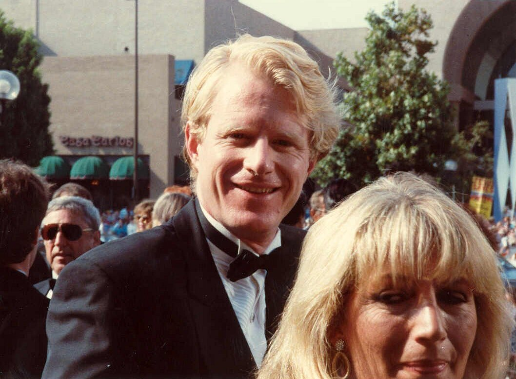 Ed Begley Jr. and Penny Marshall on the red carpet at the 40th Annual Primetime Emmy Awards, 8/28/88